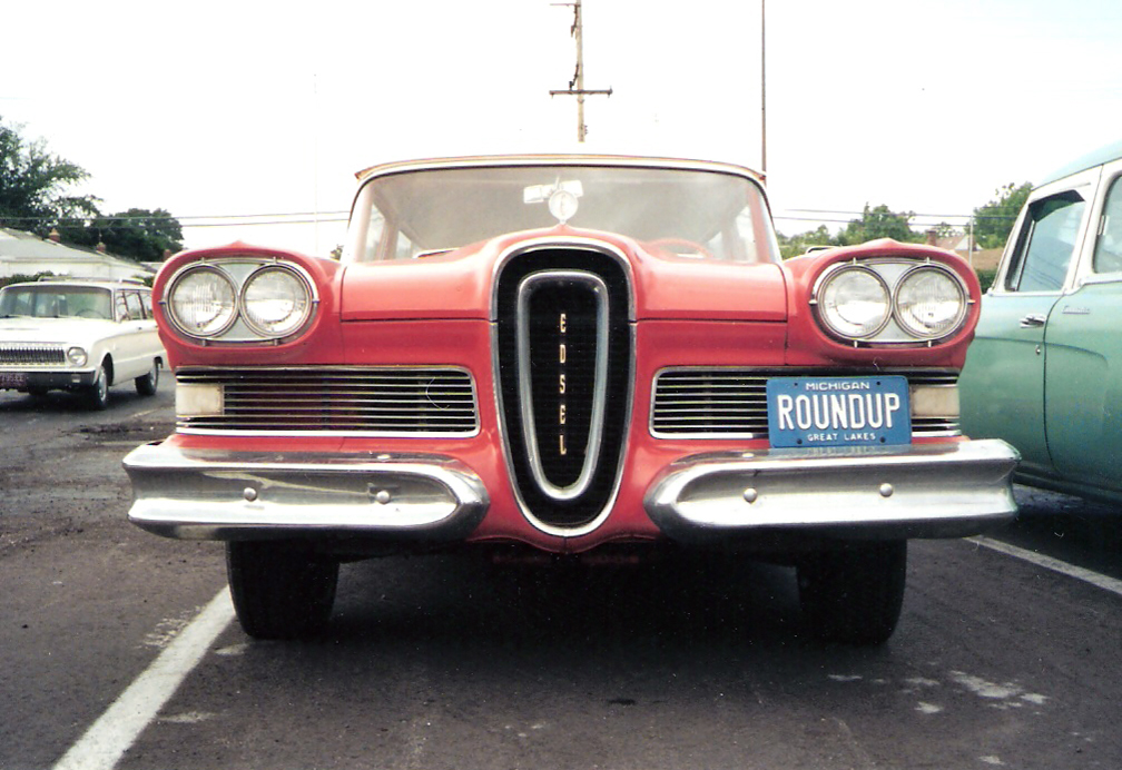 Front view of a 1958 Edsel Roundup 2-door station wagon photographed in Dearborn, Michigan.